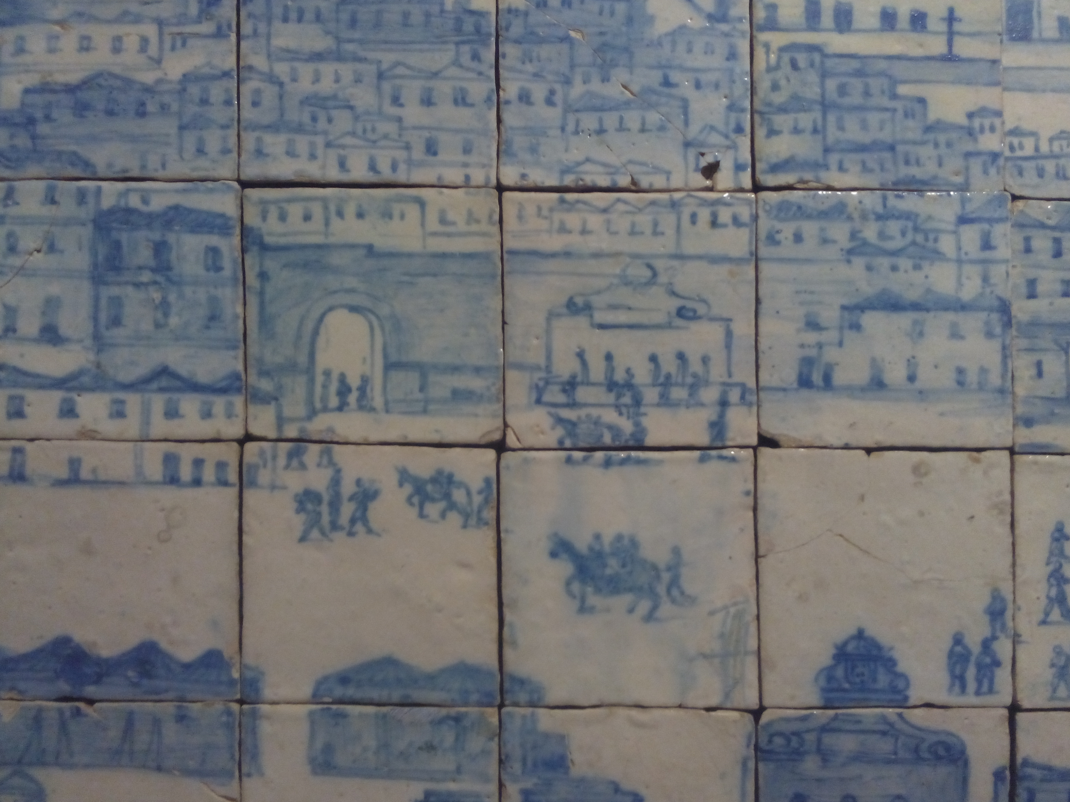 Depiction of a Gate of the City Wall (Porta da Cerca) and the King's Fountain (Chafariz d'El-Rei), in Lisbon, in an early 18th-century tile panel depicting a view of city. Currently in the National Tile Museum (Museu Nacional do Azulejo), in Lisbon, Portugal.